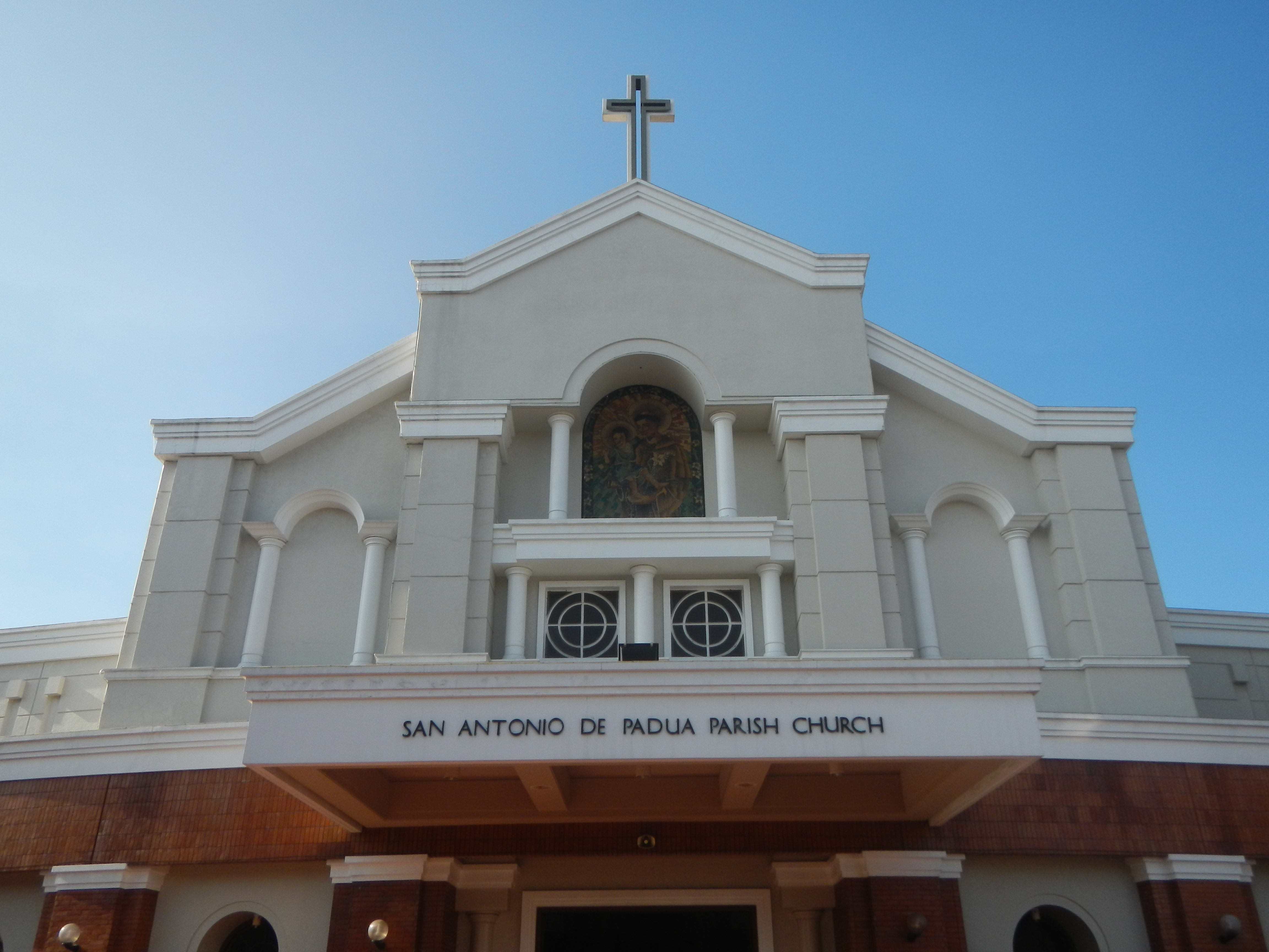 San Antonio Valley 14°27'53"N 121°1'12"E San Antonio de Padua Parish Church (San Antonio Valley 1, San Antonio, Parañaque City) Canonically erected May 14, 1970, Dedicated on June 13, 2005, the 35th Fiesta Sucat Road 14°27'58"N 121°1'0"E Dr. A. Santos Avenue; Legislative districts of Parañaque 1st District, Districts and barangays, Barangays San Antonio 14°27'56"N 121°1'52"E from San Isidro, Parañaque San Isidro 14°28'1"N 121°0'40"E San Dionisio 14°29'2"N 120°59'33"E La Huerta 14°29'50"N 120°59'43"E beside Santo Niño 14°30'14"N 121°0'11"E Baclaran, Parañaque City (Note: Judge Florentino Floro, the owner, to repeat, Donor Florentino Floro of all these photos hereby donate gratuitously, freely and unconditionally Judge Floro all these photos to and for Wikimedia Commons, exclusively, for public use of the public domain, and again without any condition whatsoever).